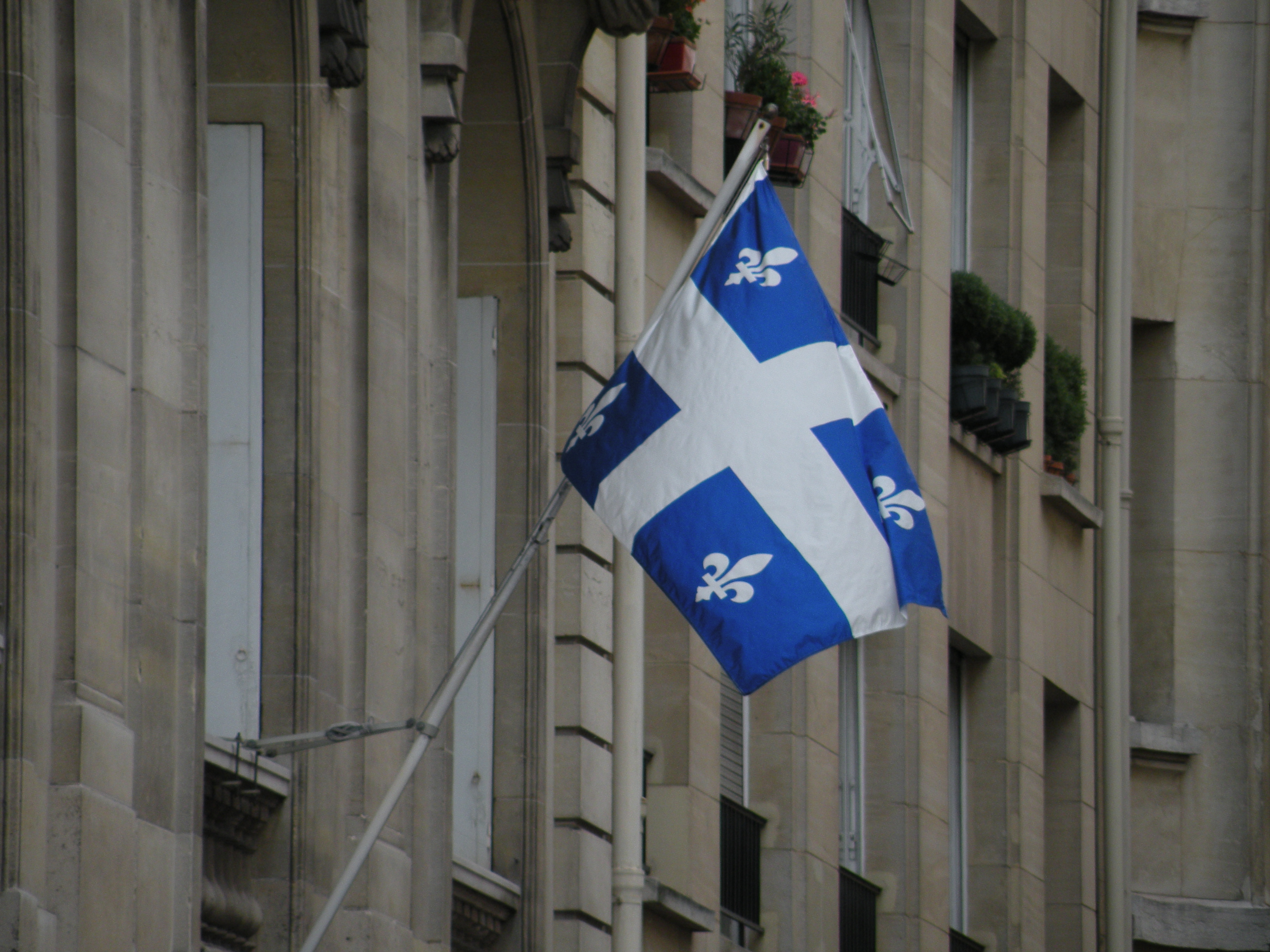 Flag of Quebec on the Quebec Government Office in Paris.